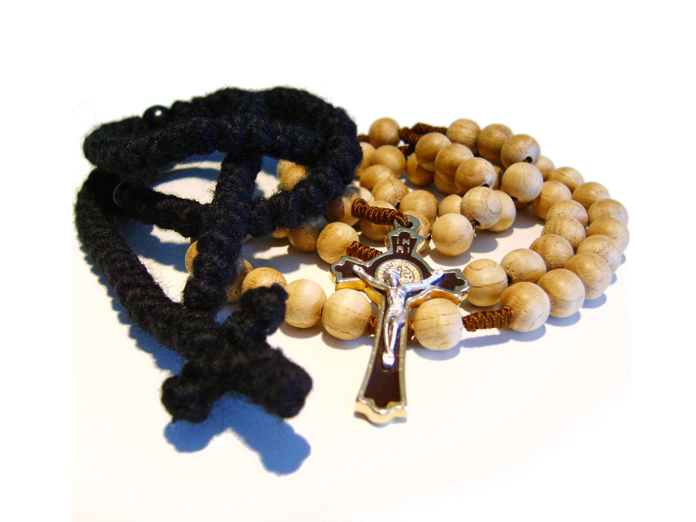 Eastern Orthodox prayer rope (l.) and Roman-Catholic Rosary (r.)